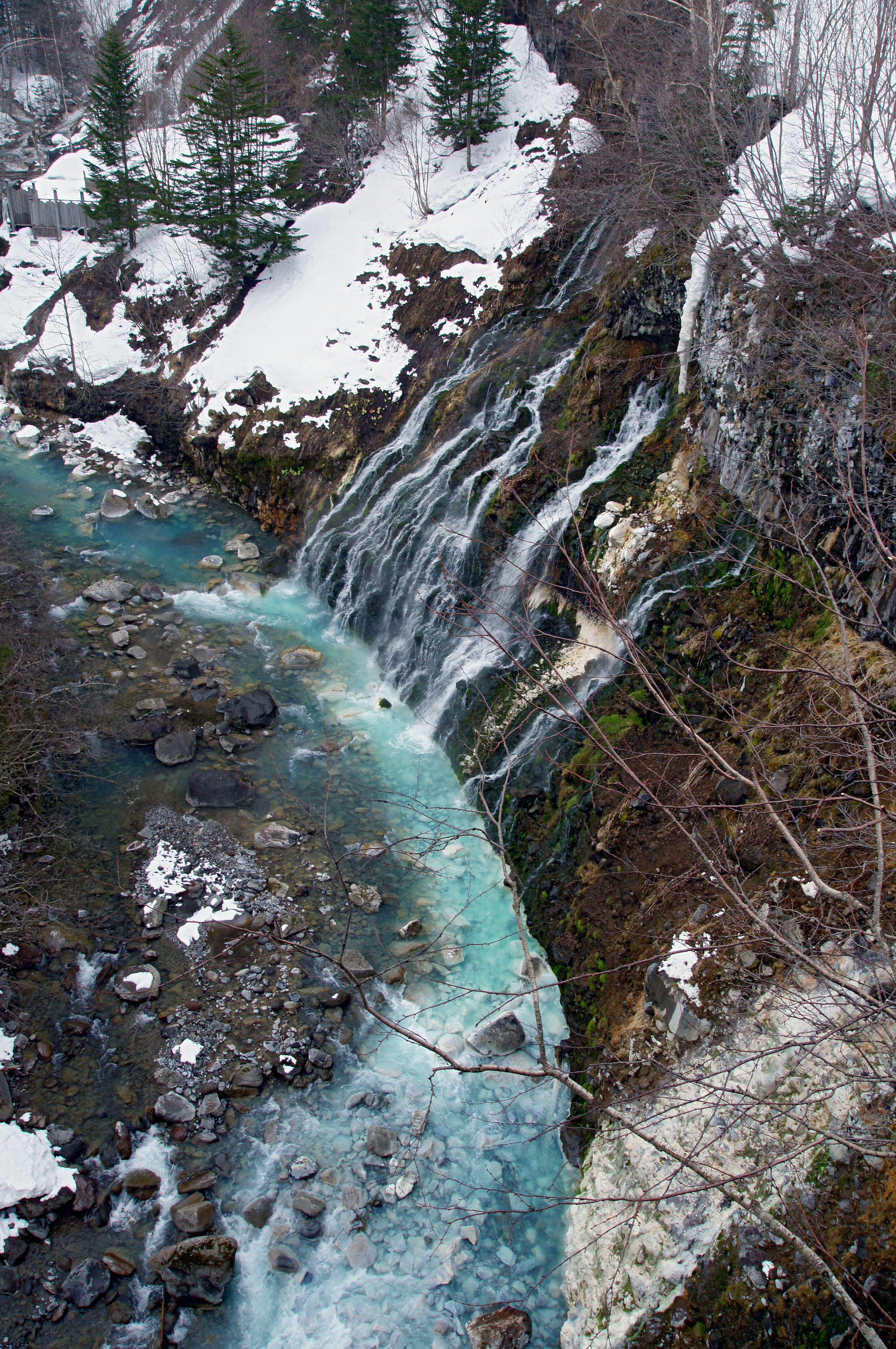 Shirahige Falls in Biei, Hokkaido prefecture, Japan.